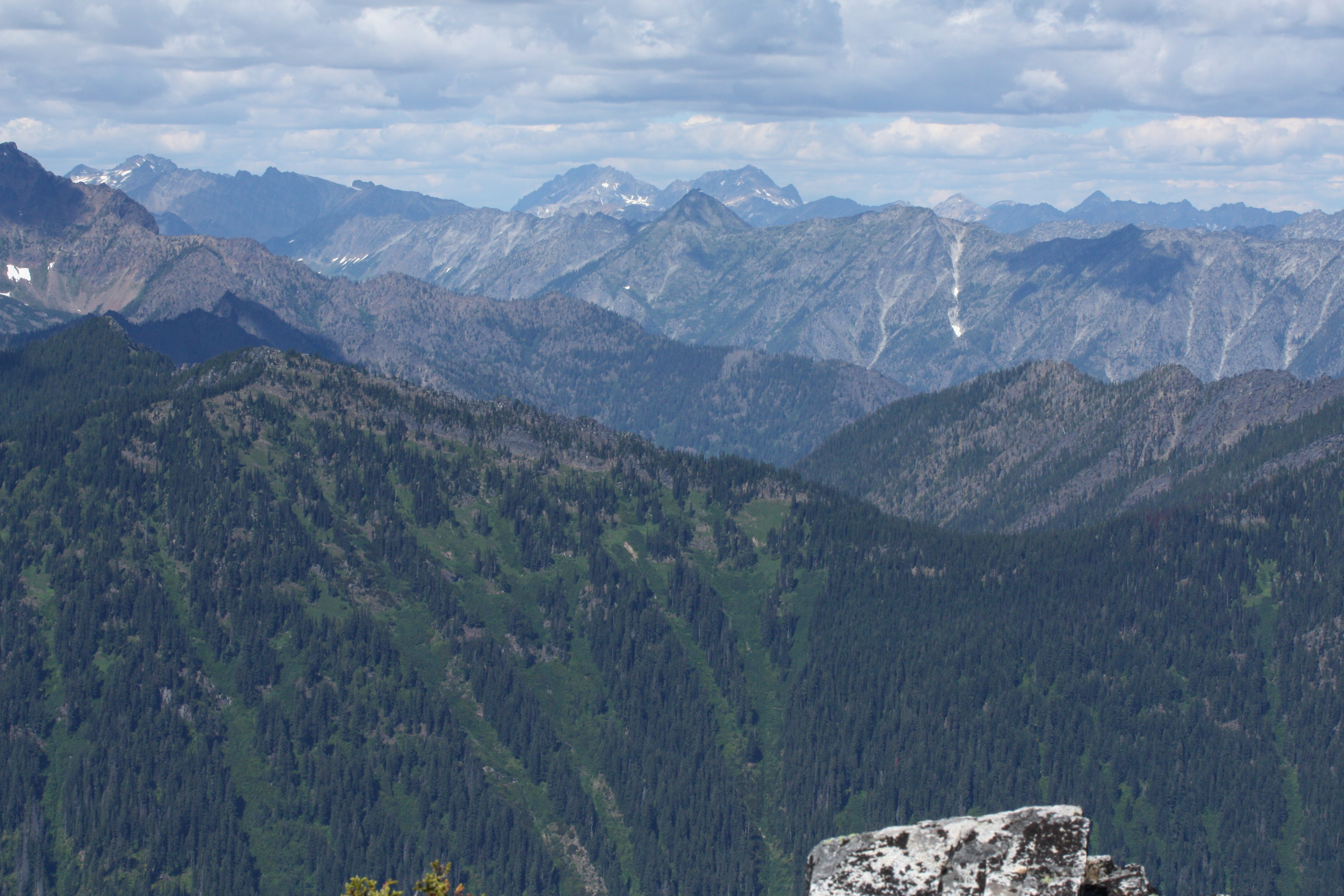 Seven-Fingered Jack (9100 feet, 2774 m, left center skyline); Mount Maude (9040+ feet, 2755+ m, right center skyline); Elsey Peak (7235 feet, middle distance between Jack and Maude); Irving Peak (5937 feet, 1810 m, left, summit of first ridge)